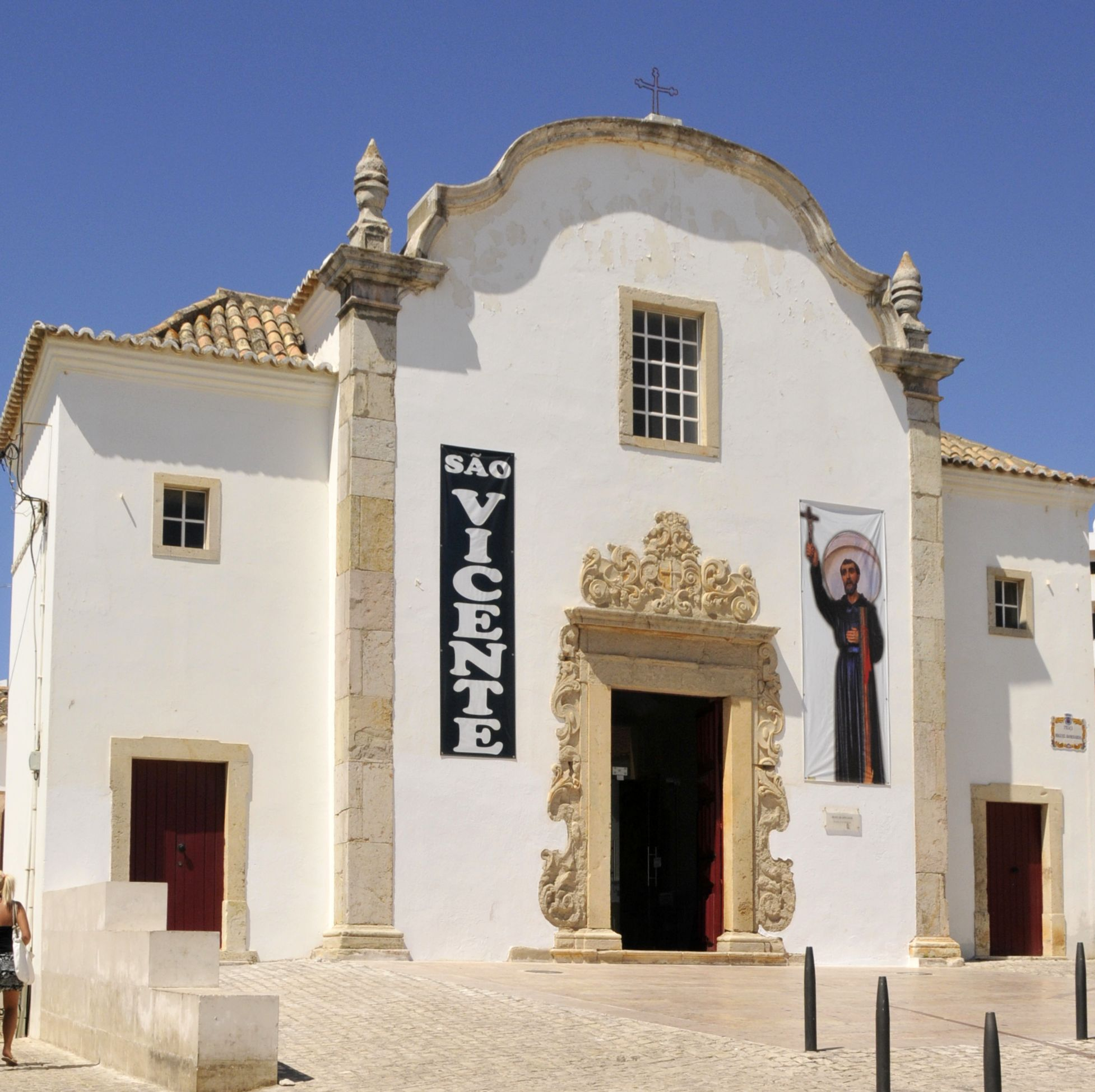 The 18th century Church of São Sebastião, with a Baroque portico, and lateral Manueline doorway. Its wooden retable, is unique in the Algarve, with images from the 17th and 18th century, and mutilated image of Senhora da Piedade. Image shows the church facade at the time of the Festival of Saint Vincent